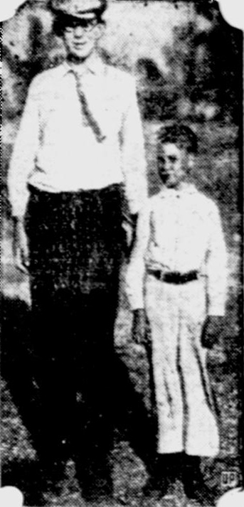 "Robert Wadlow (left) and Jack Grissom, playmates at Alton, IL, are both 10 years old. Robert is six feet, six inches tall and weights 211 pounds. Jack is four feet, two inches-about normal for a boy of his age."